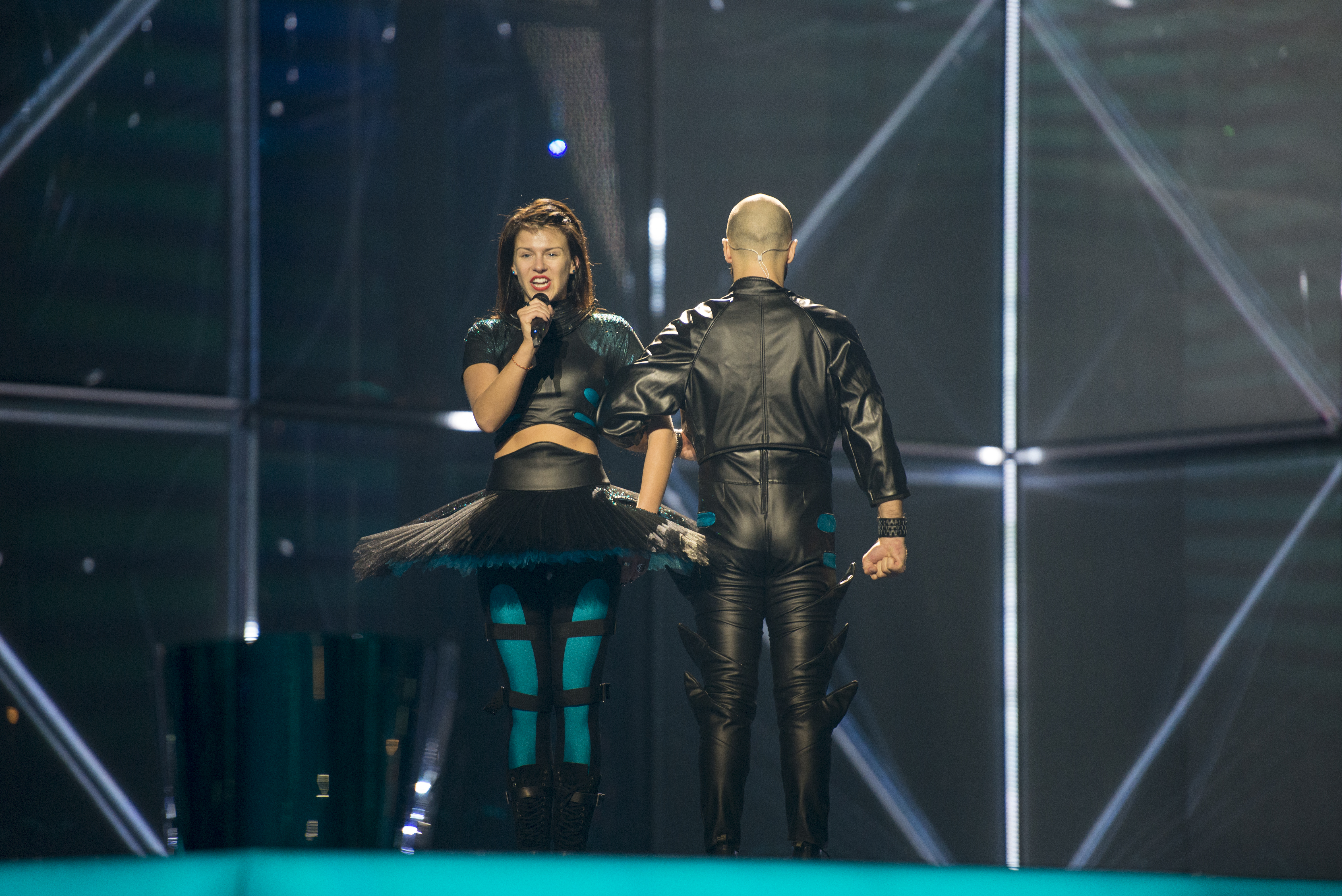 Vilija Matačiūnaitė representing Lithuania with the song "Attention" during the first dress rehearsal of the second semi final of the Eurovision Song Contest 2014 Copenhagen. (Help translate this text)